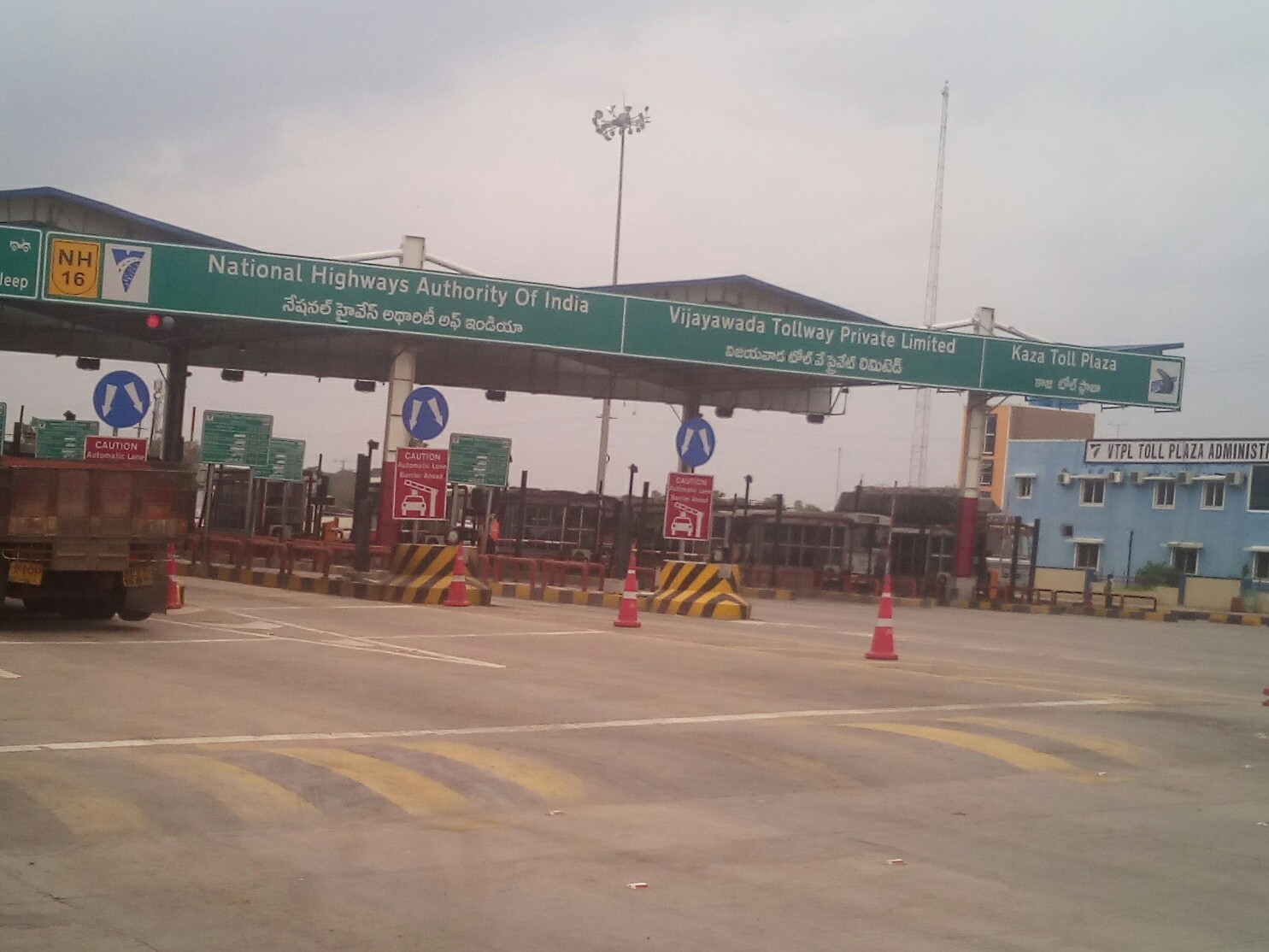 Toll plaza at Kaza village on National Highway 16